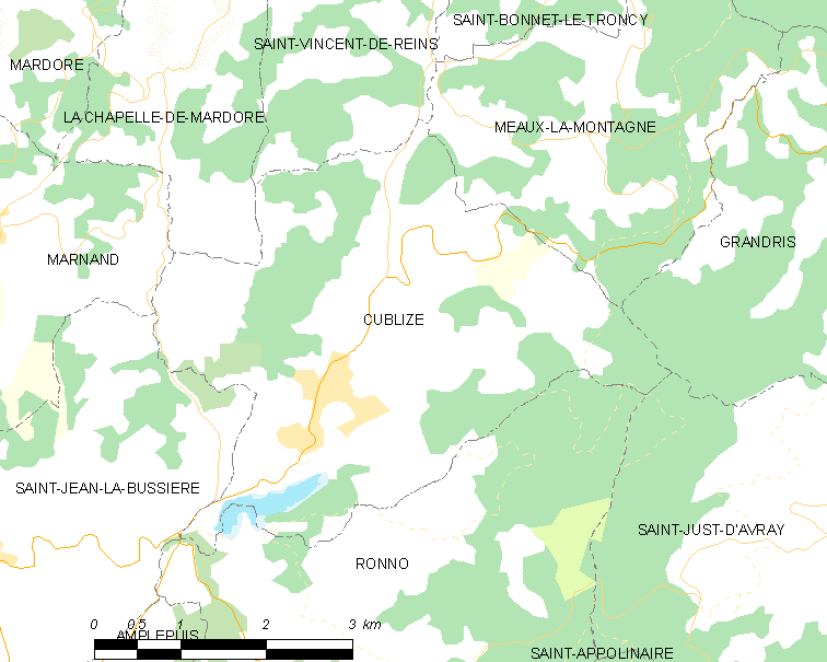 Map of French municipality